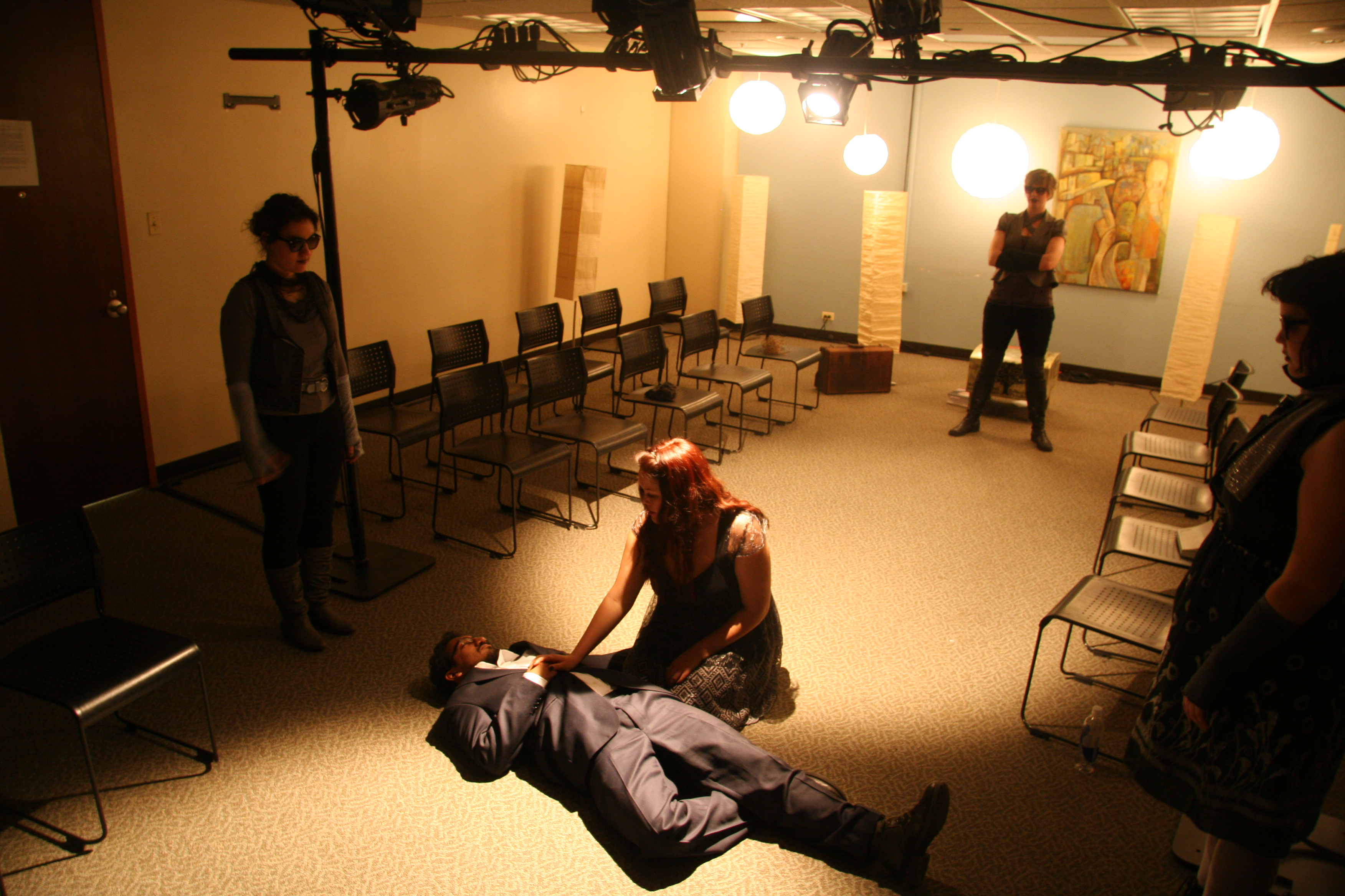 Eurydice (Lynne Lee) finds her father (Mark Surya) lying unconscious after he has dipped himself in the Lethe for a second time, in a Shimer College performance of Sarah Ruhl's Eurydice in April 2013. Surrounding the father and daughter are the three stones: Big Stone, Small Stone, and Loud Stone. The performance was held in the Cinderella Lounge at Shimer, on the second floor of the building at 3424 S. State St. in Chicago.